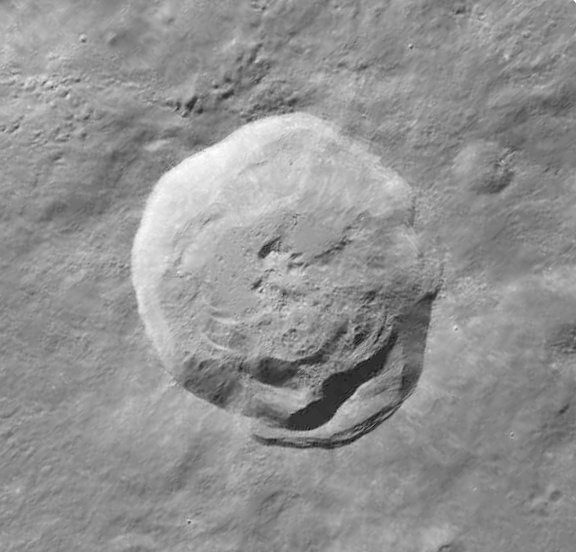 Moon crater Thales (north at top; detail of LRO - WAC north pole mosaic)